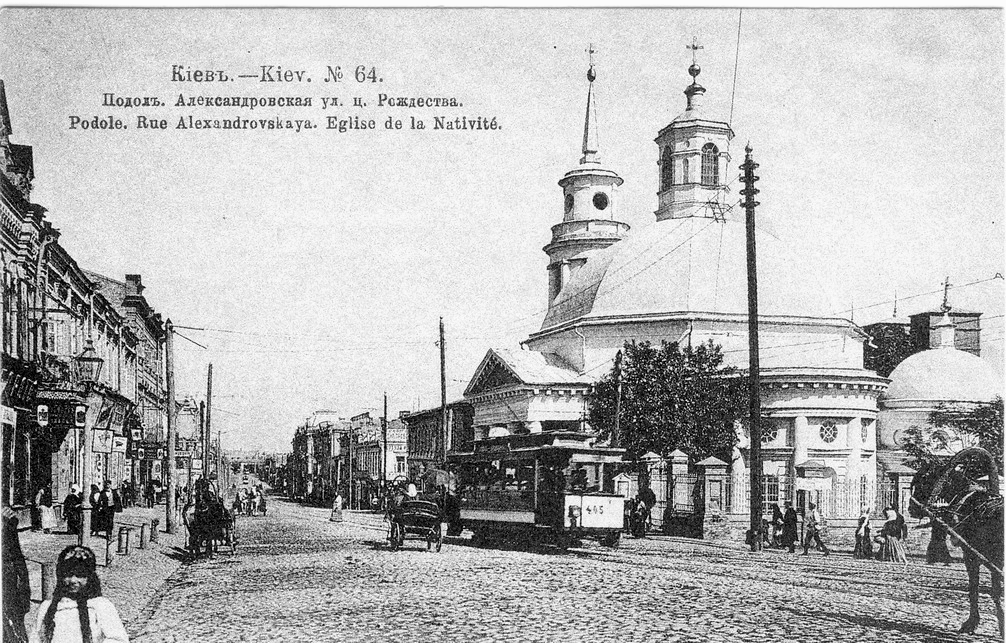 Nativity of Christ Church, Kiev, Podol.